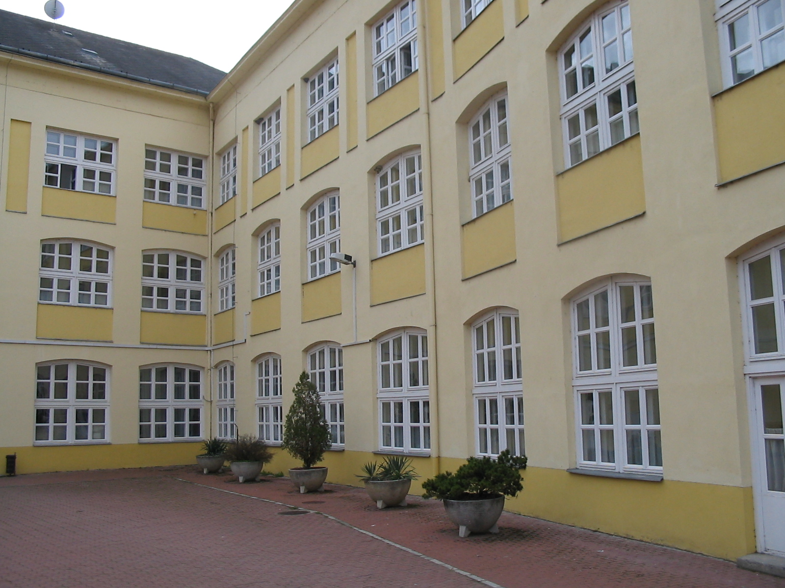 The “old wing” of the Varga Katalin Secondary School (Varga Katalin Gimnázium), Szolnok from the “yard”